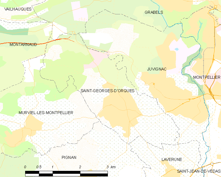 Map commune FR insee code 34259.png - Saint-Georges-d'Orques